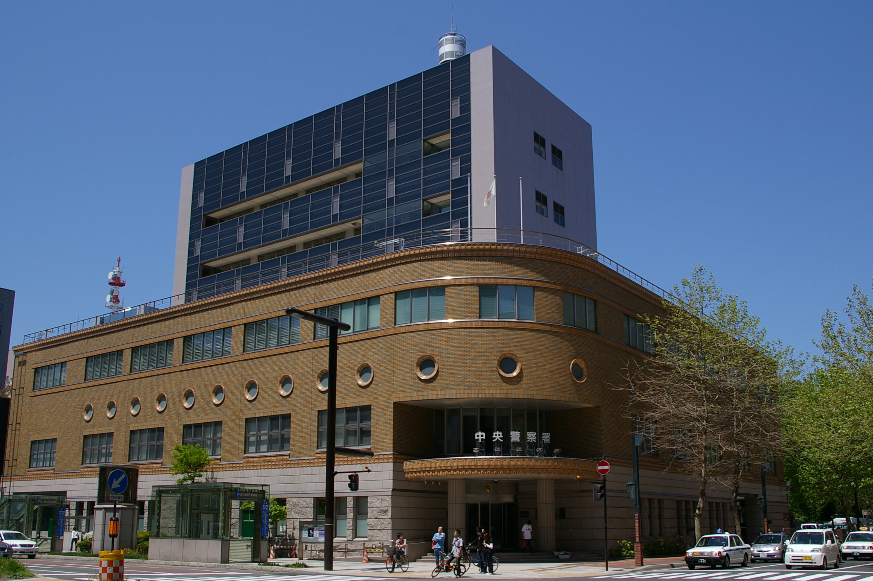 Photograph of Chuo Police Station in Chuo-ku, Sapporo, Hokkaido, Japan.